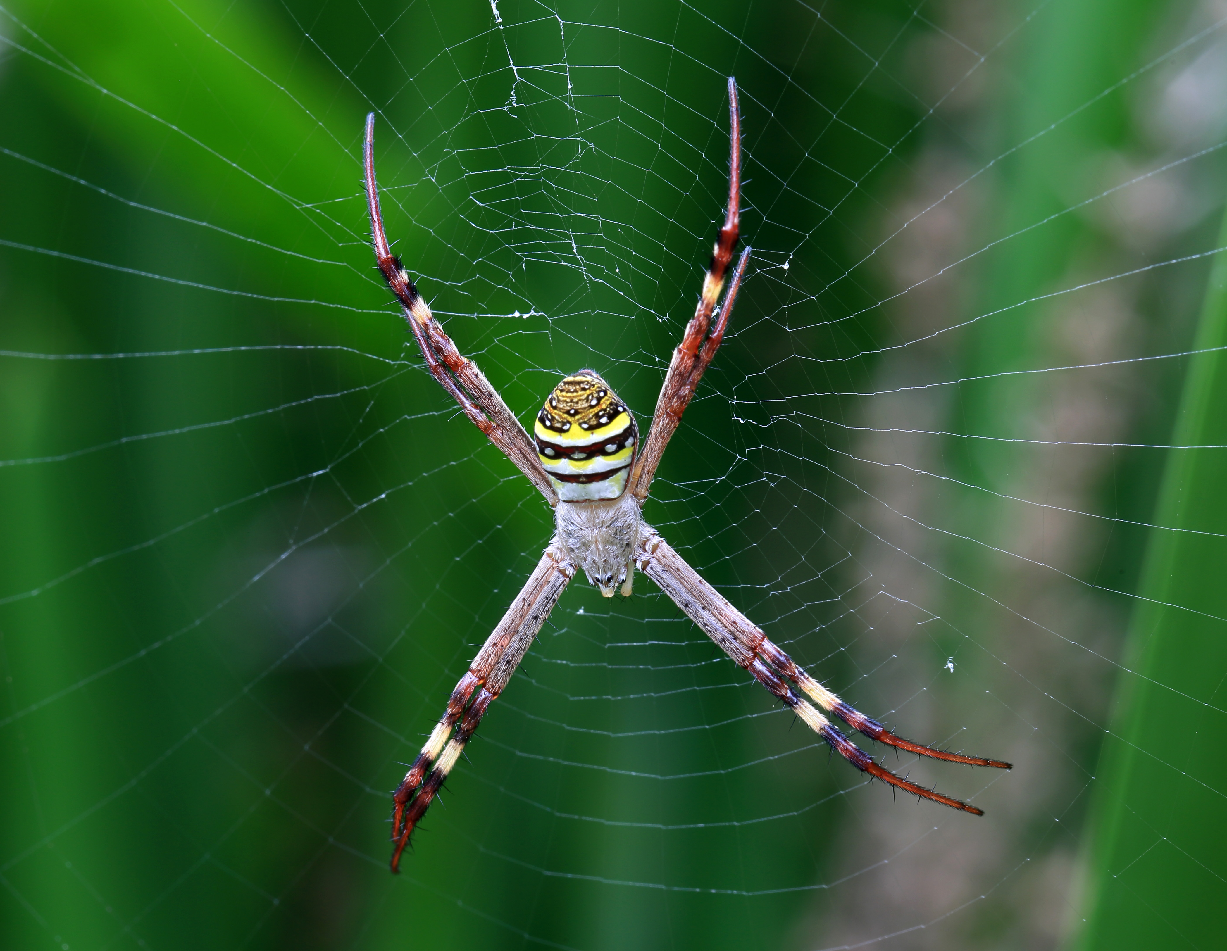 Argiope keyserlingi, St. Andrews Cross Spider (female), Taken in the Royal Botanic Gardens, Sydney, Australia